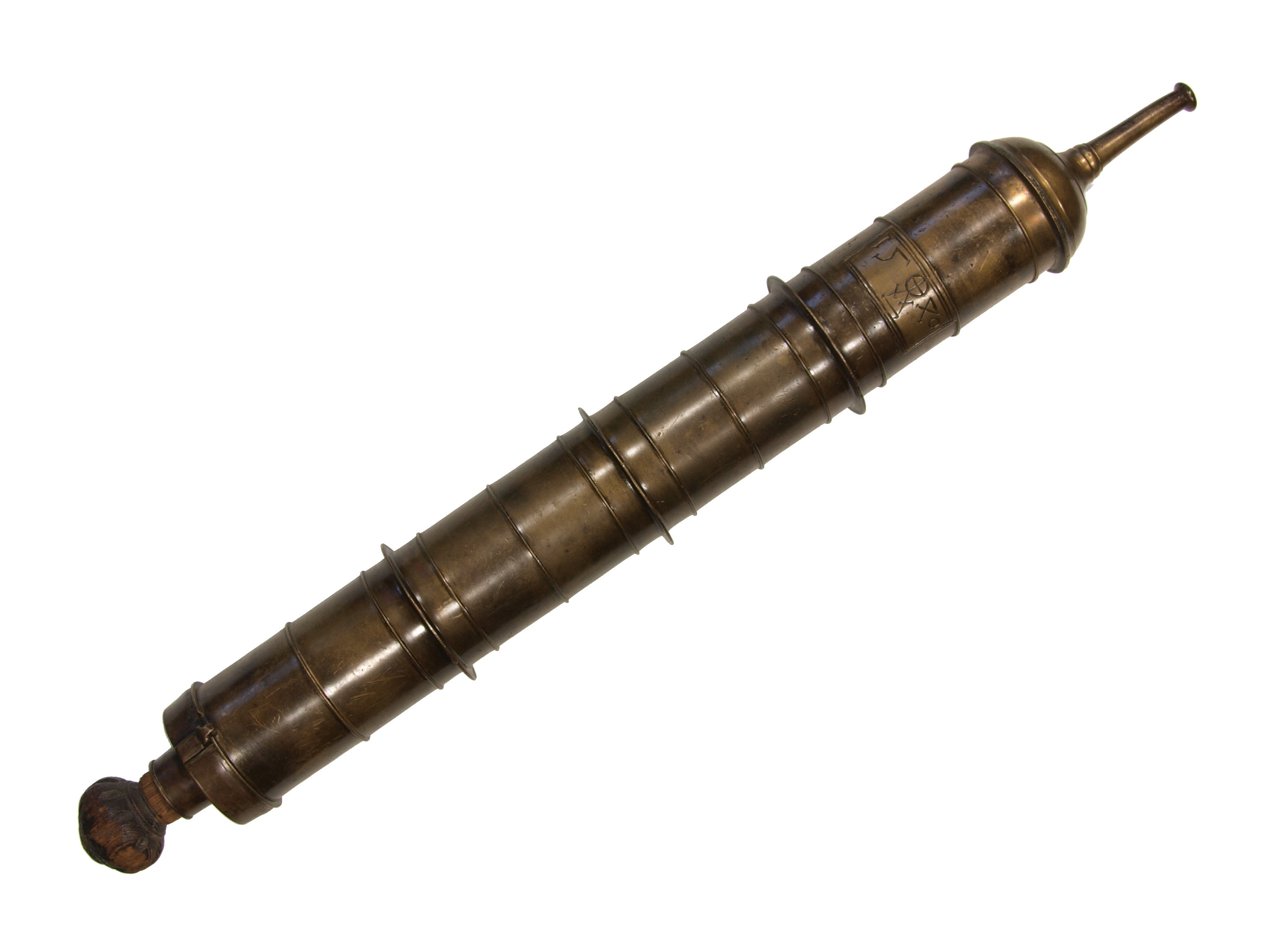 Fire extinguishing syringe from 1540. Bronze and wood. Inventory No. 1929,4. Length: 700 mm (27.6 in). Diameter: 137 mm (5.4 in).